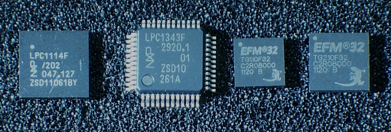 ARM Cortex-M ICs (Cortex-M0: NXP LPC1114. Cortex-M3: NXP LPC1343, Energy Micro EFM32TG110F32 and EFM32TG210F32)